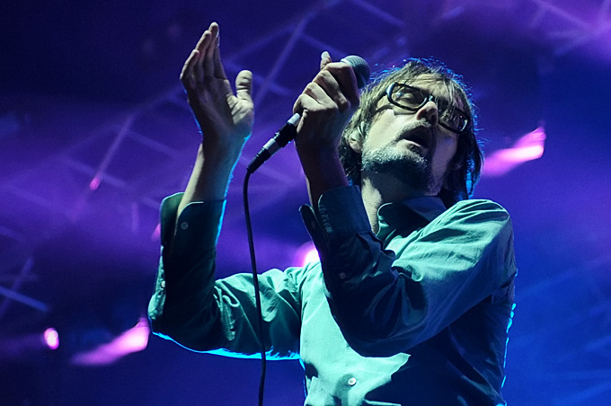 On The Bright Side festival 2011.